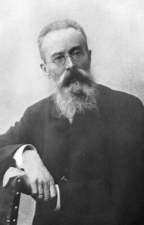 Photo of Nikolai Rimsky-Korsakov, as shown on Public domain.